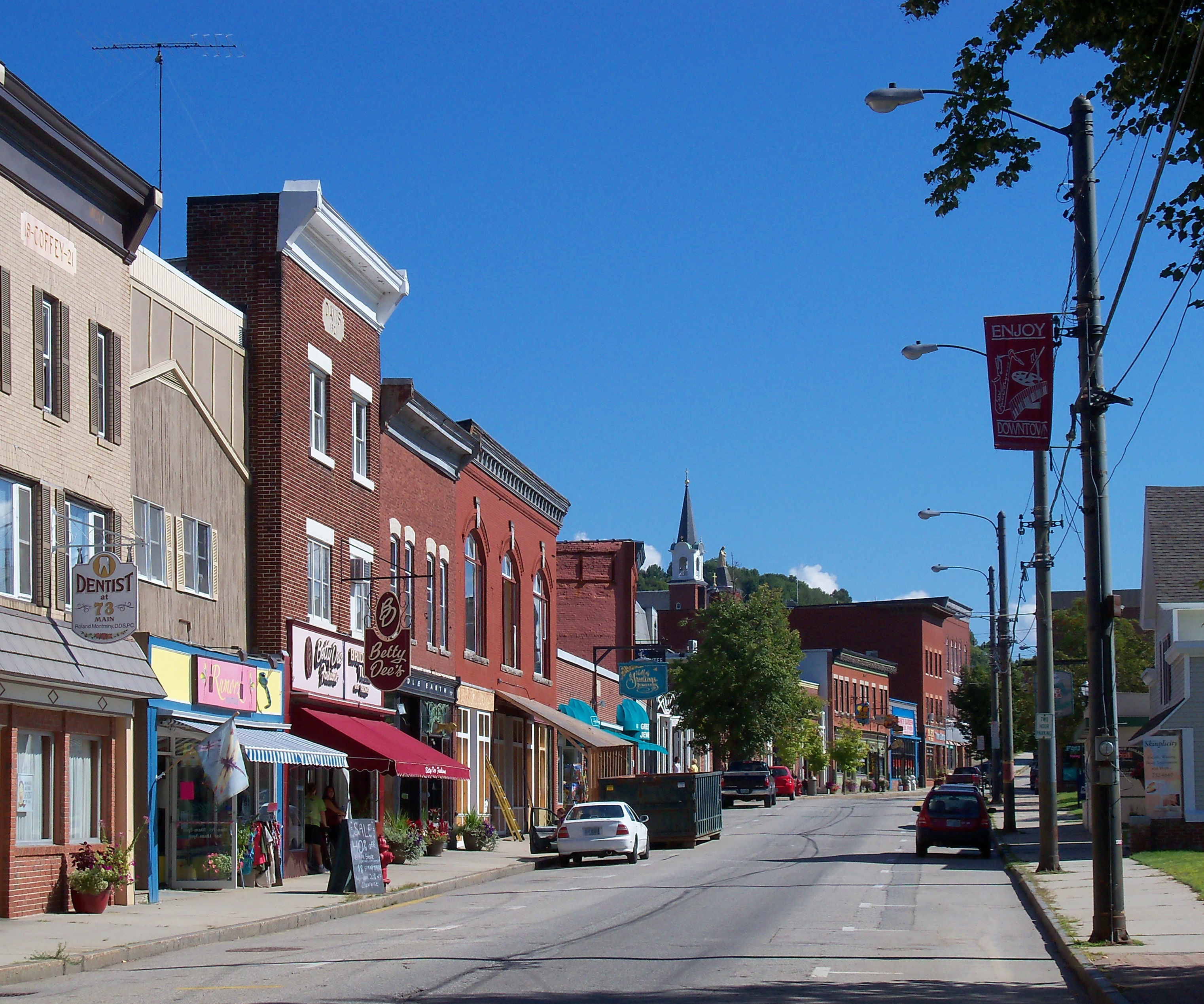 Main Street in Berlin, New Hampshire, USA.